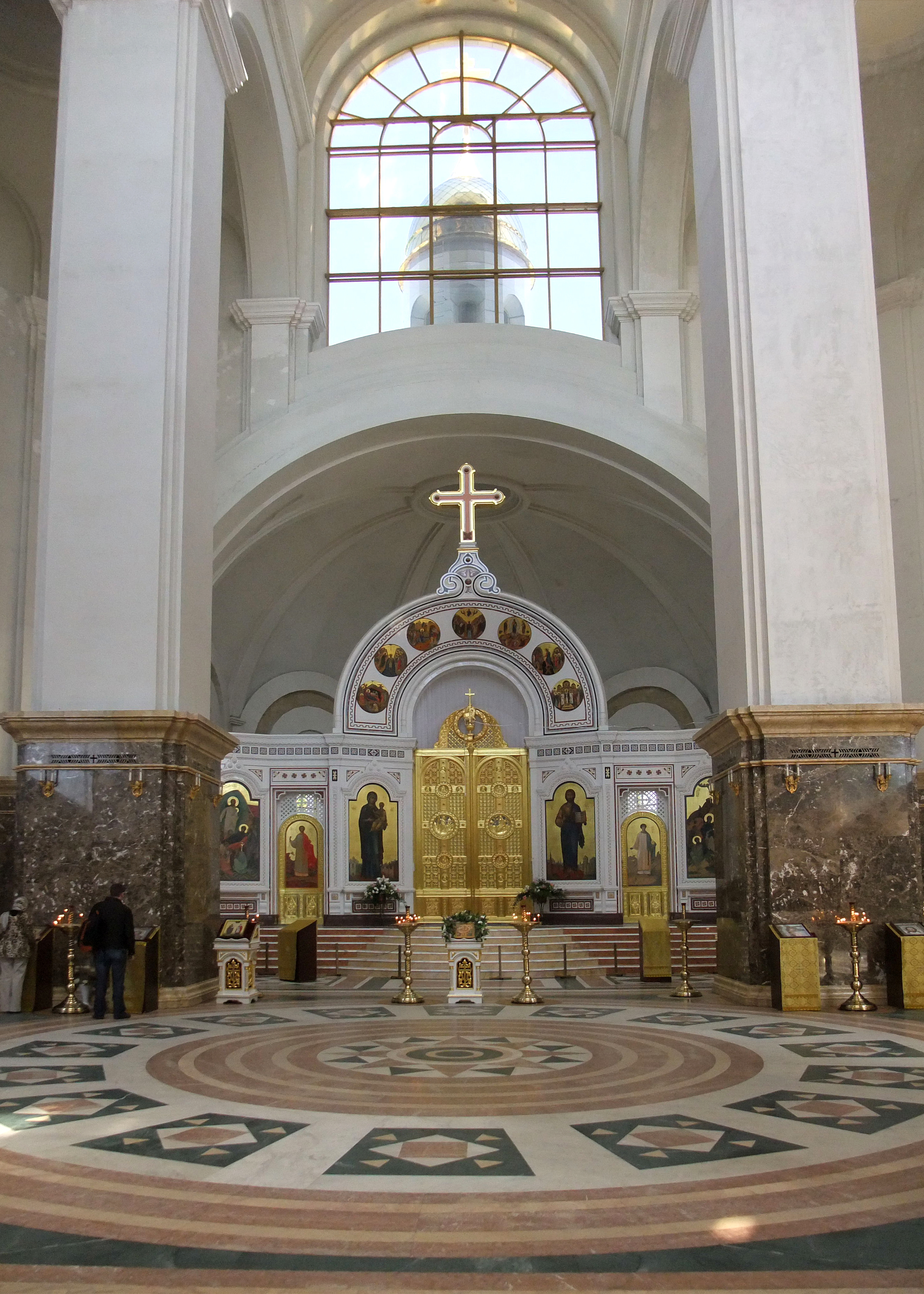 Inside the Cathedral of Christ the Saviour in Kaliningrad, Russia